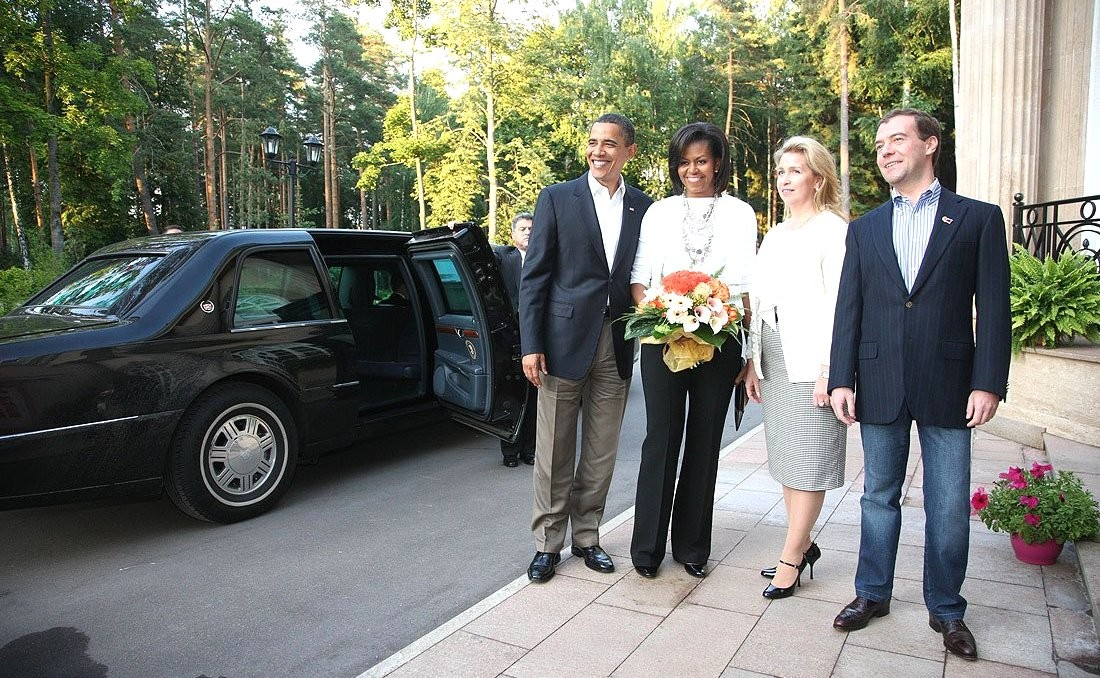 GORKY, MOSCOW OBLAST. Dmitry and Svetlana Medvedev with US President Barack Obama and his wife Michelle Obama